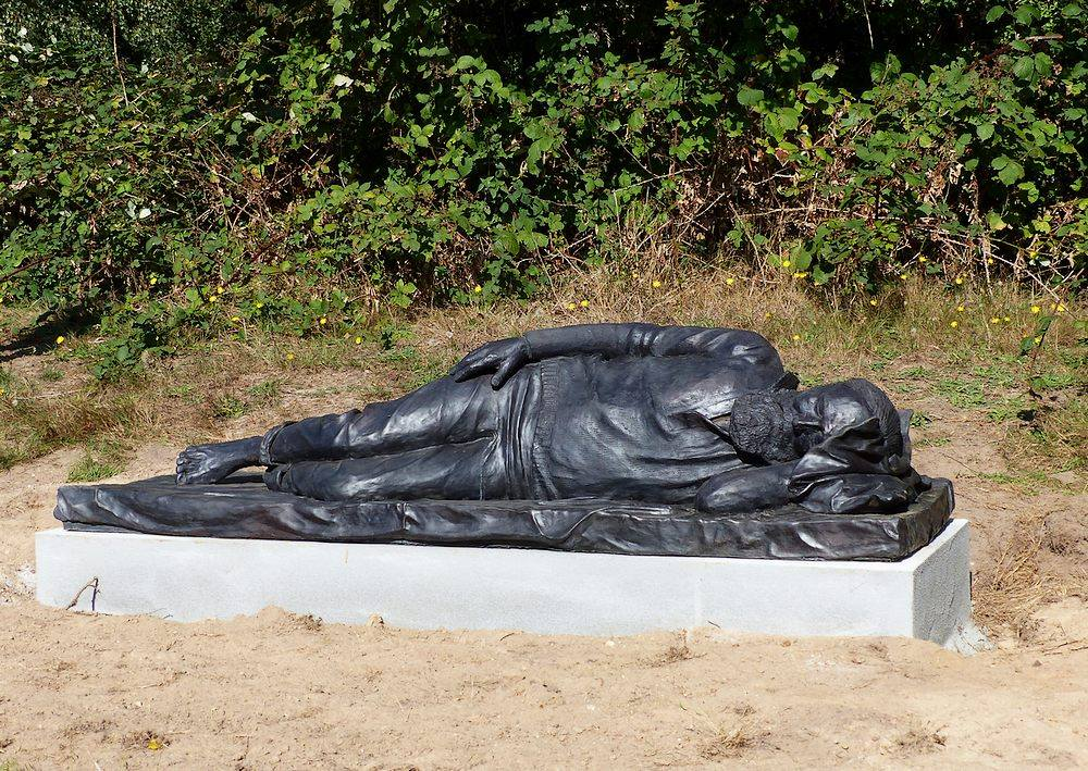 John Kørners skulptur af Peter Freuchen på Enehøje